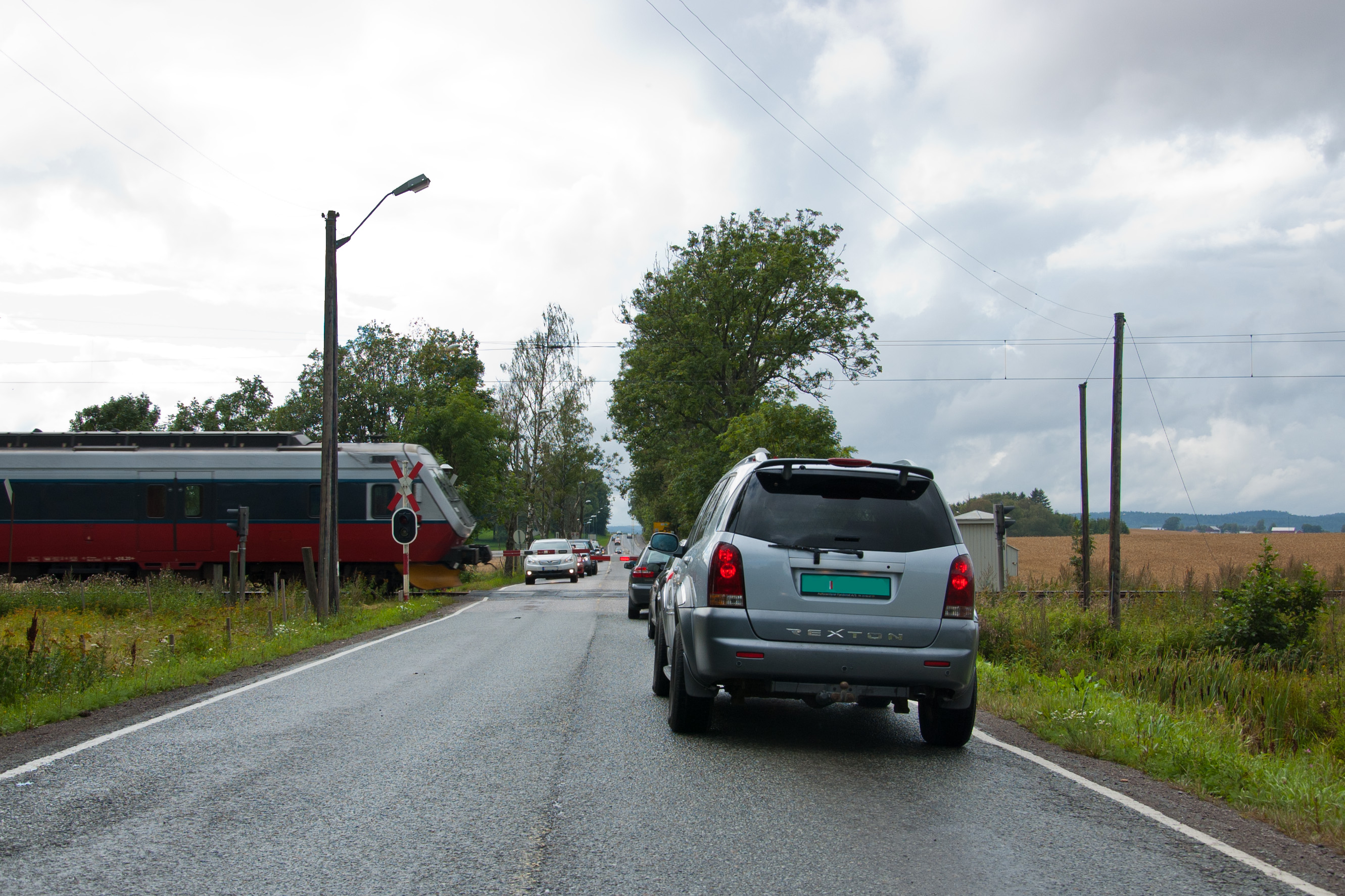 Tomsbakken level crossing on the Vestfold Line in Tønsberg, Vestfold, Norway.